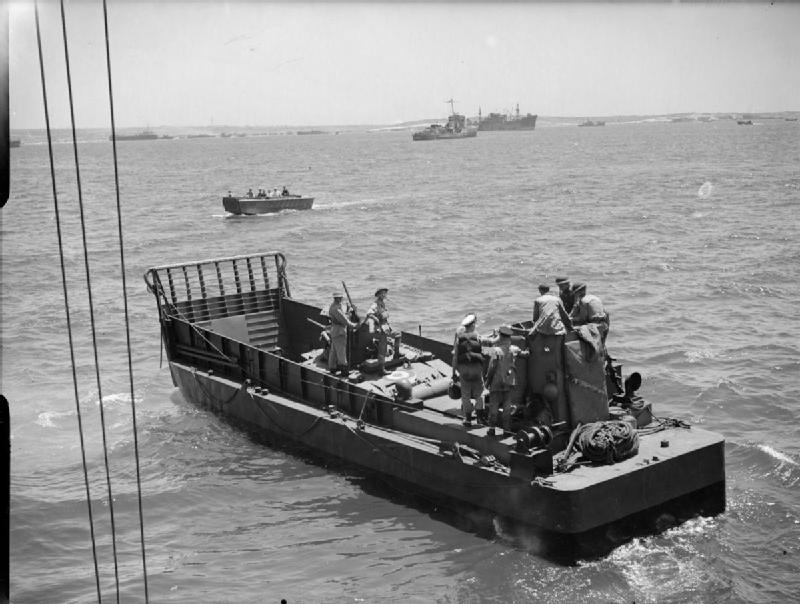 The Royal Navy during the Second World War Operation Husky: The Sicily Landings 9-10 July 1943: Landing craft (a Landing Craft Mechanised (mark 3)) going ashore in the early morning during the start of the invasion of Sicily.